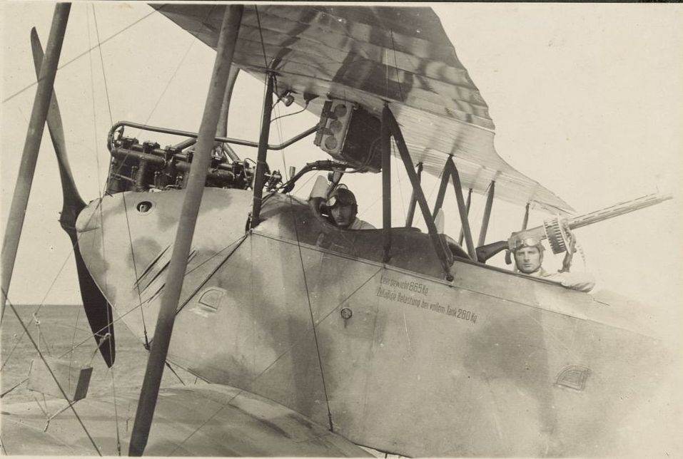 Felmy (left) the famous German aviator, in his 'Albatross' at Huj, 1916.